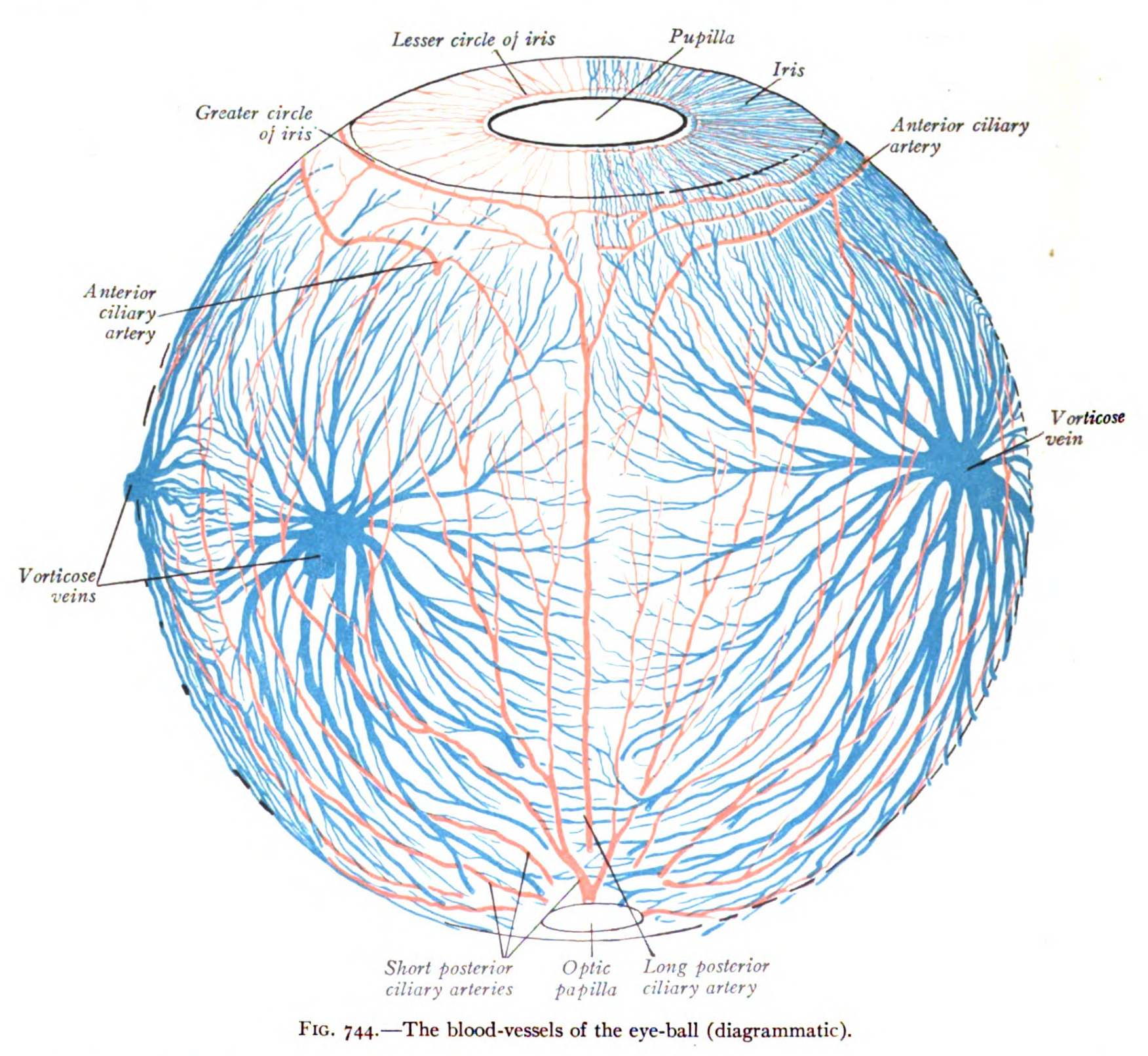 An anatomical illustration from the 1909 edition of Sobotta's Anatomy